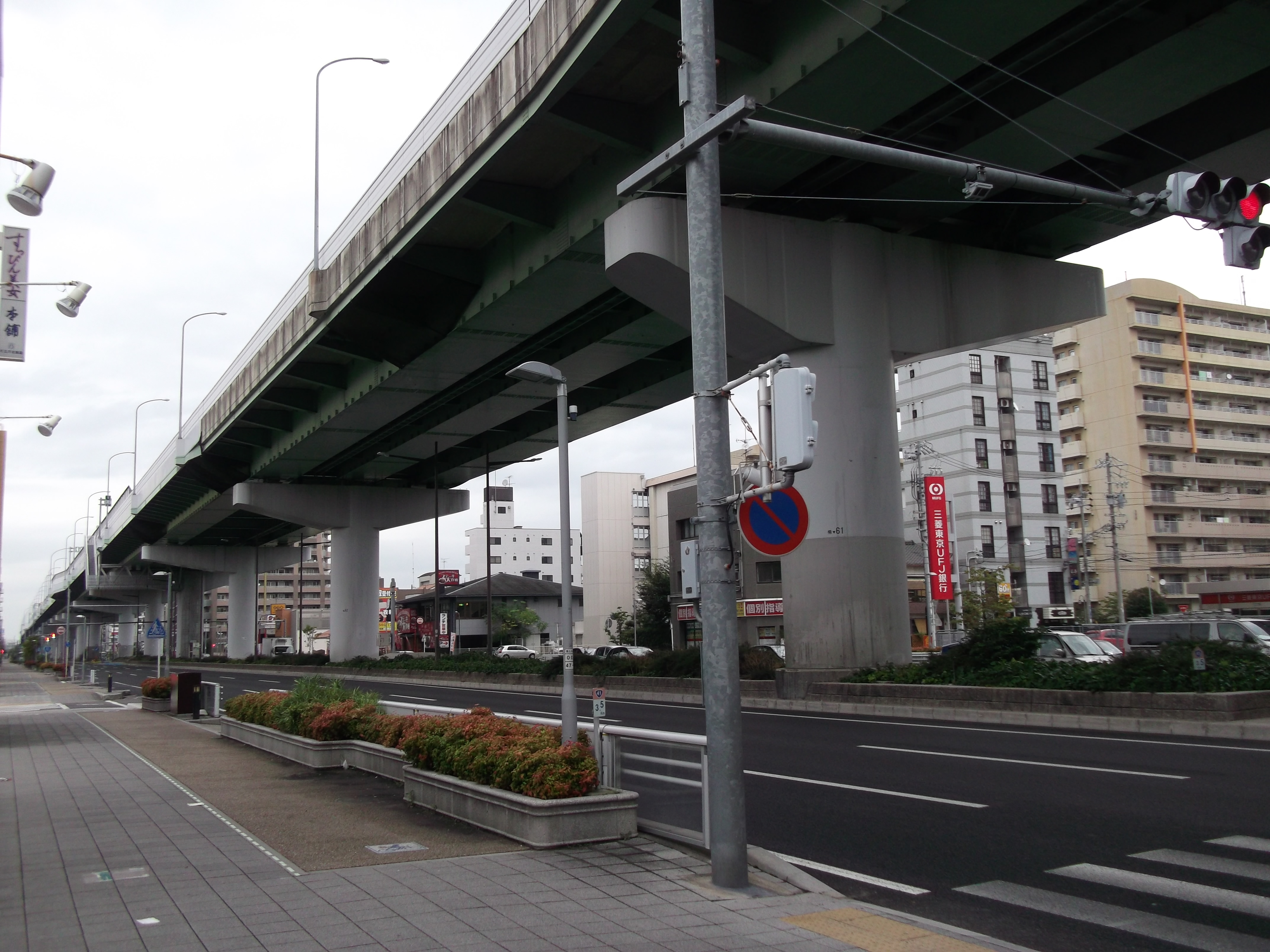 Site of Hagino Interchange on the Nagoya Expressway Route 1 in Kita-ku, Nagoya City